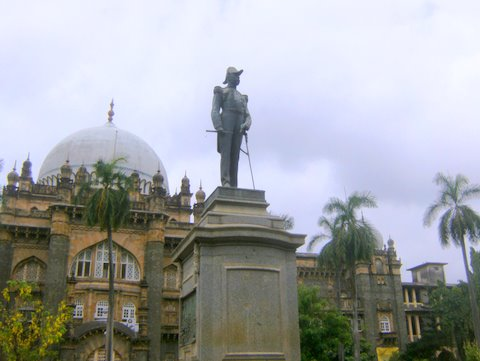 The Statue of POW, in front of Chatrapathi Shivaji maharaj vastu samgrahalaya.